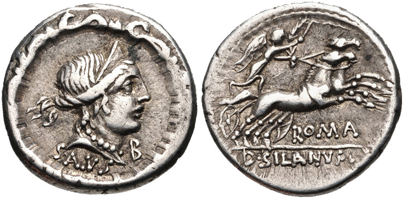 D. Junius L.f. Silanus 91 BC. AR Denarius (18mm, 3.97 g, 10h). Rome mint. Diademed head of Salus right within torque / Victory driving biga right. Crawford 337/2c; Sydenham 645b; Junia 18. VF, toned.